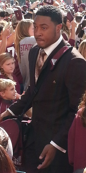 Benardrick McKinney on November 8, 2014